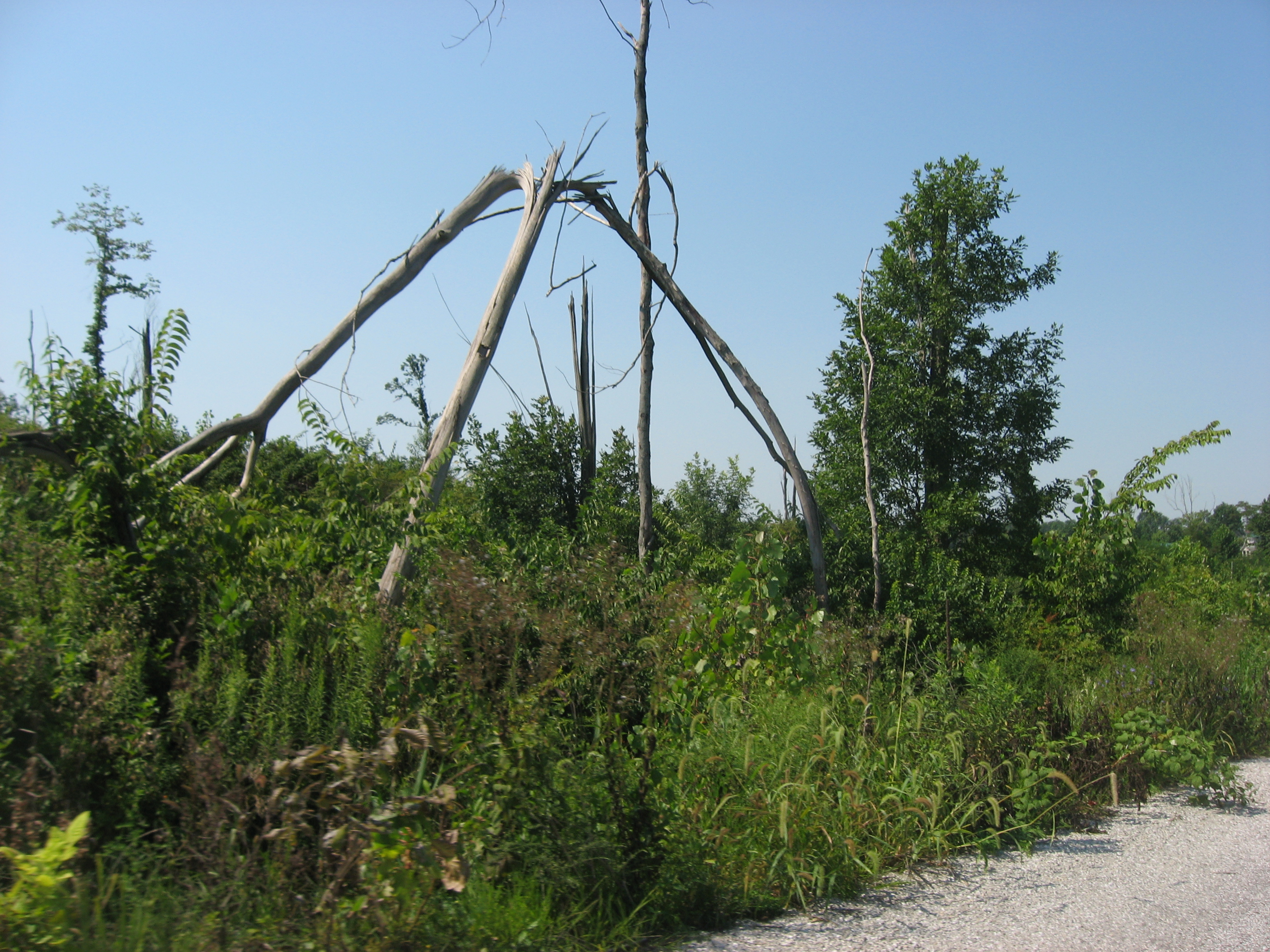 Wreckage of trees along County Road 850S at Moscow, Indiana, United States. These trees were damaged by the June 2008 tornado, more than three years before the photo was taken.